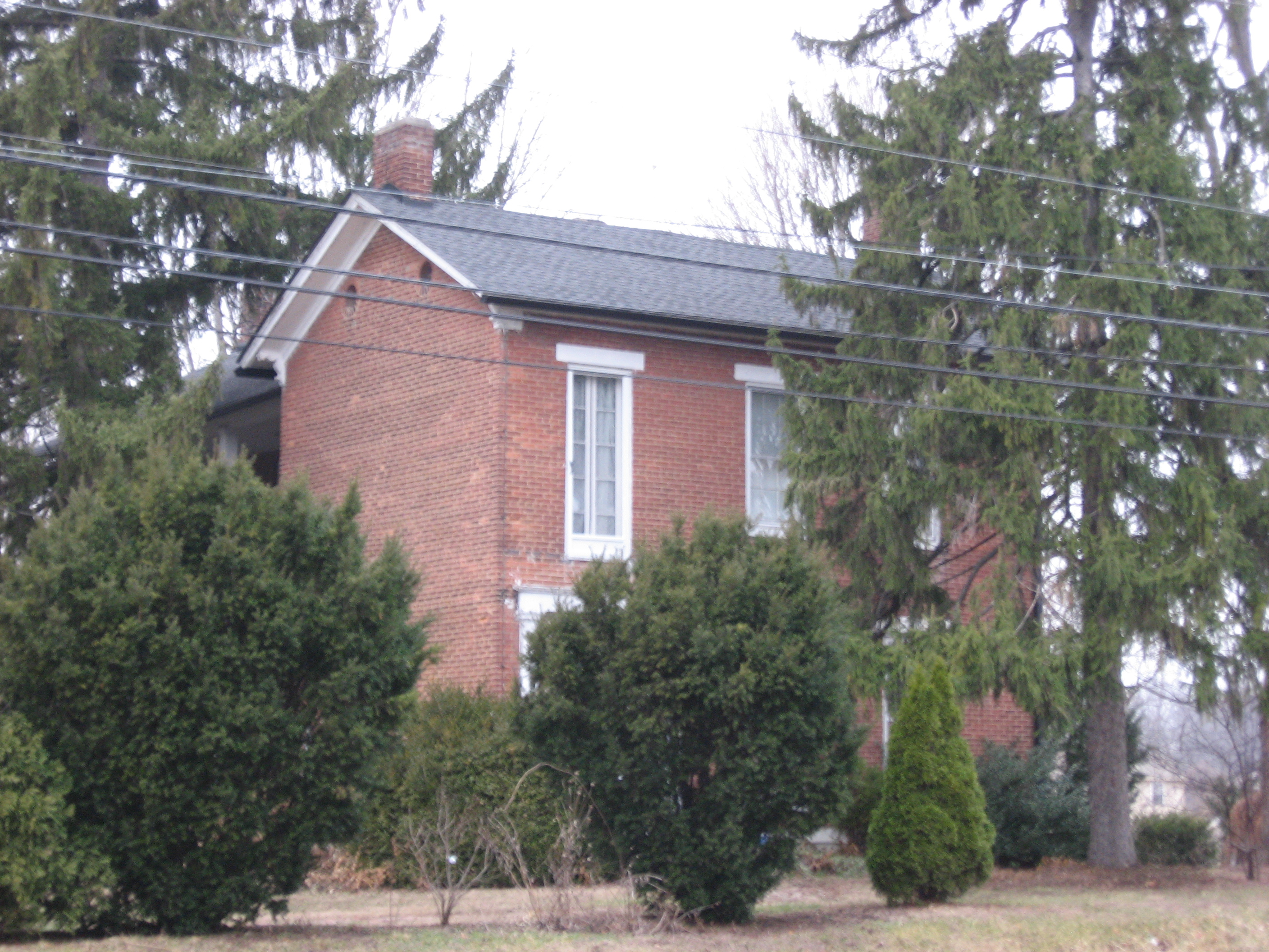 Front of the Aston Inn, located at 6620 N. Michigan Road in Indianapolis, Indiana, United States. Built in 1852, it is listed on the National Register of Historic Places.